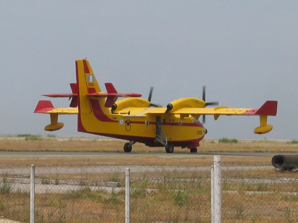 Hellenic Air Force Canadair CL-415 (reg. 2055). The plane crashed while fighting a fire, killing the two pilots in 23 July 2007.